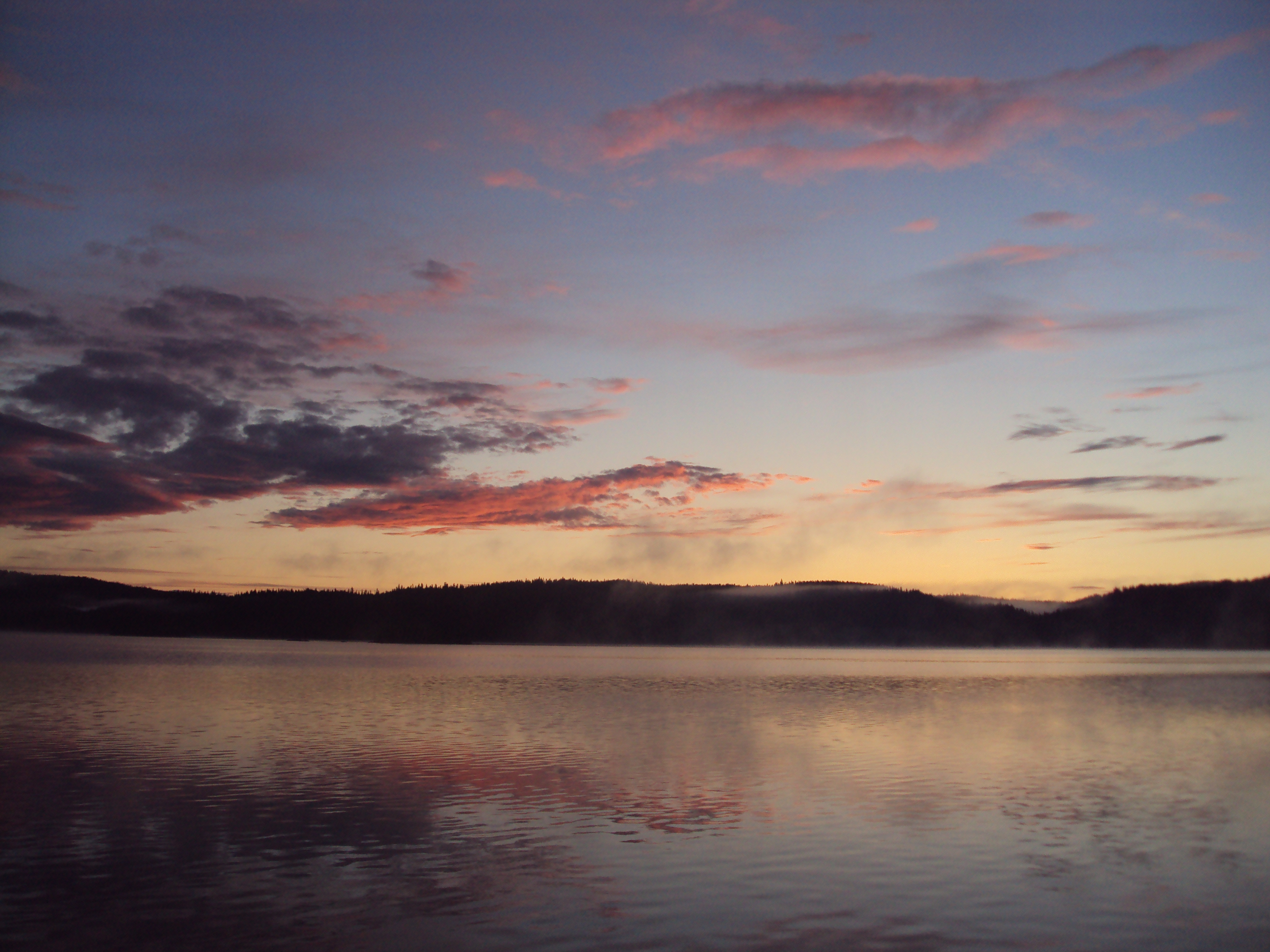 A lake called Katnosa in Nordmarka in central Norway. The picture is taken at sun rise, approximately 3:30 a.m.